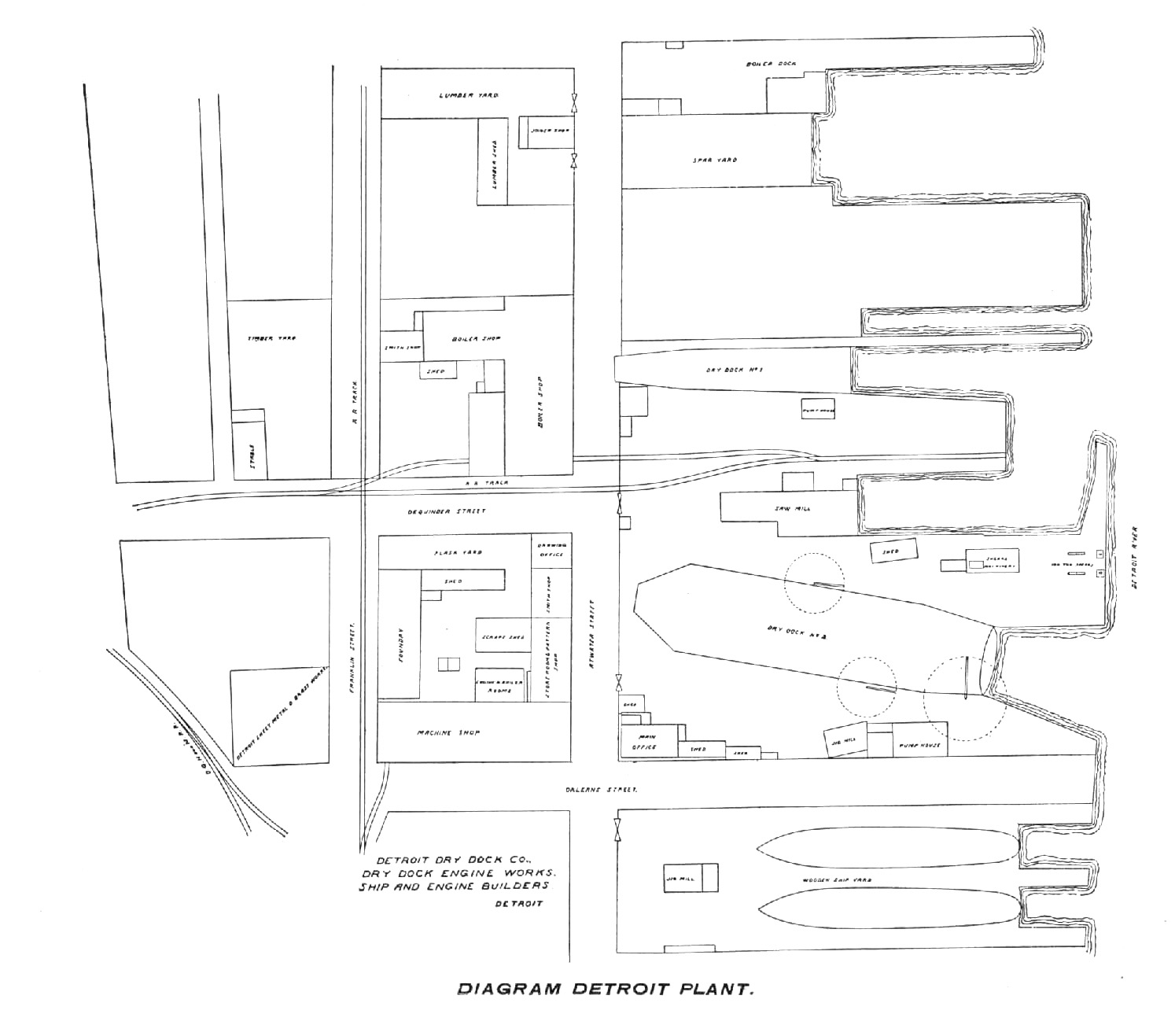 Diagram of Detroit Dry Dock Plant